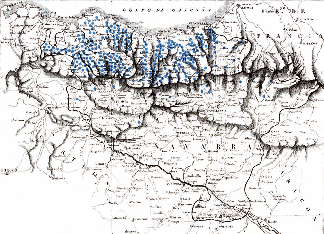 Bloomeries in the Southern Basque Country, approx. 17th-early 19th centuryEuskara: Hego Euskal Herriko burdinolak, ggb XVII. mendetik XIX. mende hasierara